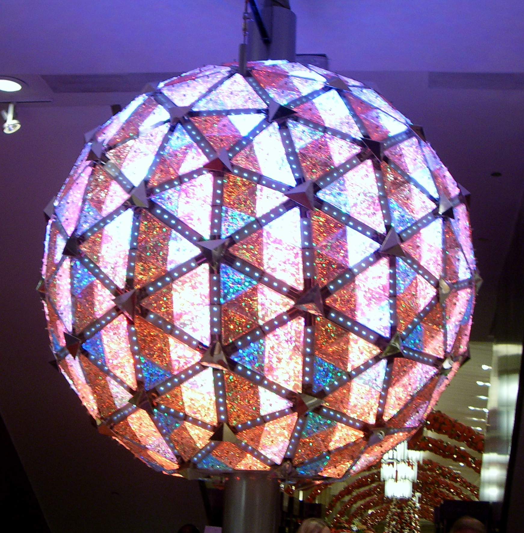 This is apparently the actual ball which will drop in Times Square signifying the start of 2008.